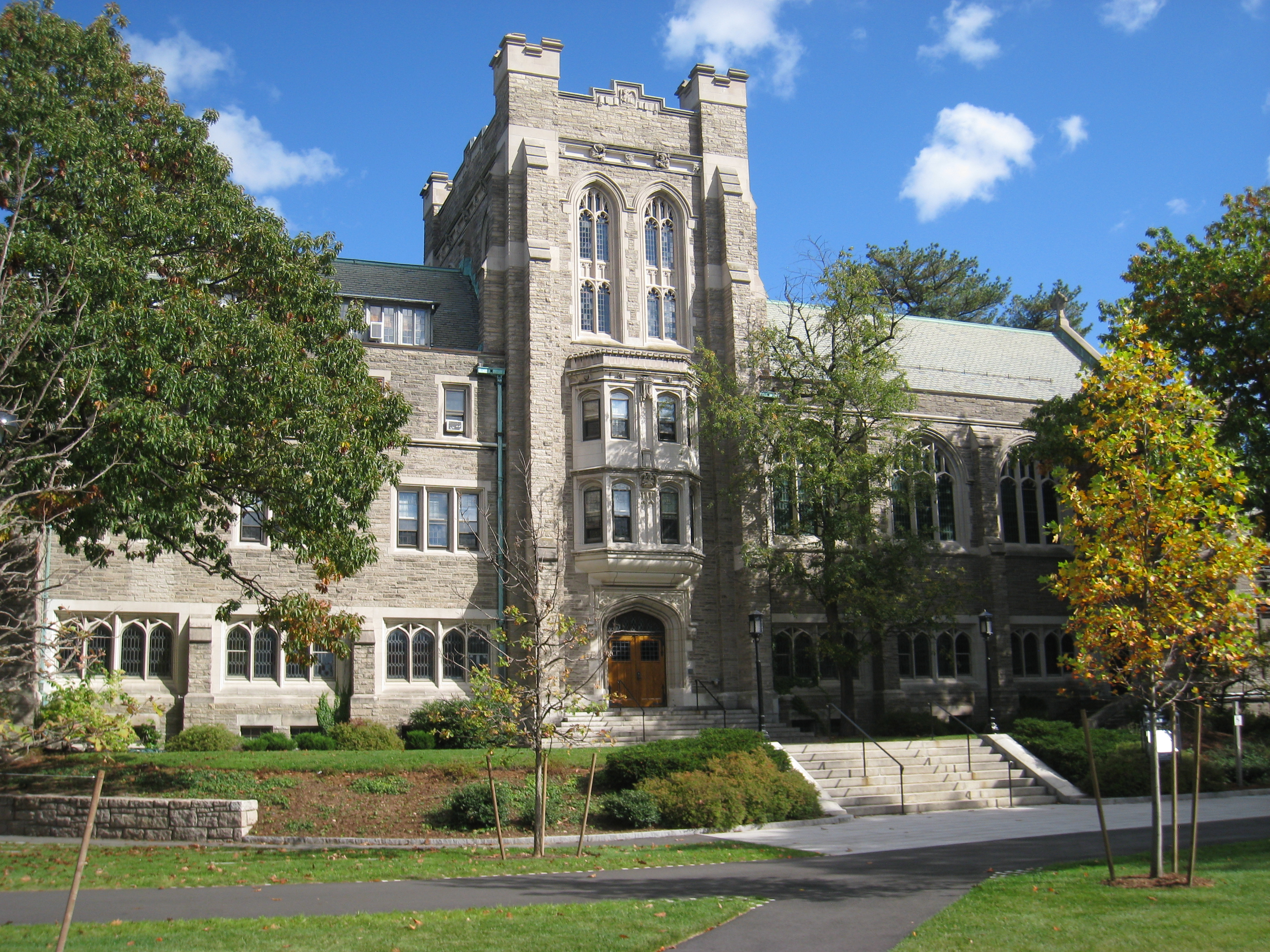 Andover Hall, home to the Harvard Divinity School at Harvard University in Cambridge, Massachusetts. The building was completed in 1911 and named for the Andover Theological Seminary, who financed its construction.